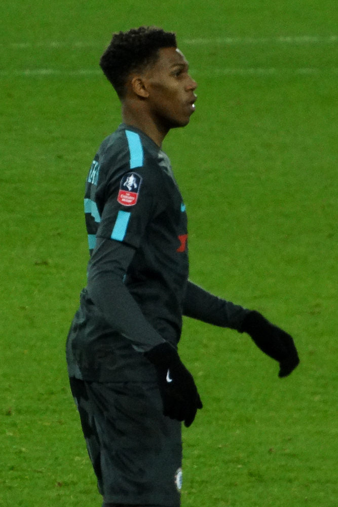 Dujon Sterling playing for Chelsea in FA Cup game against Norwich City